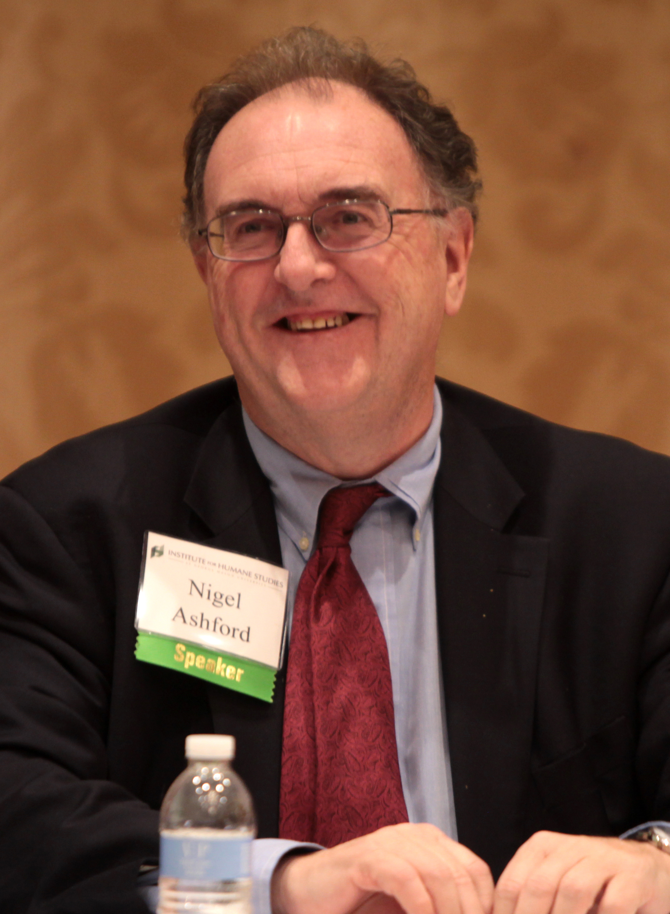 Nigel Ashford speaking at an event in Washington, D.C.